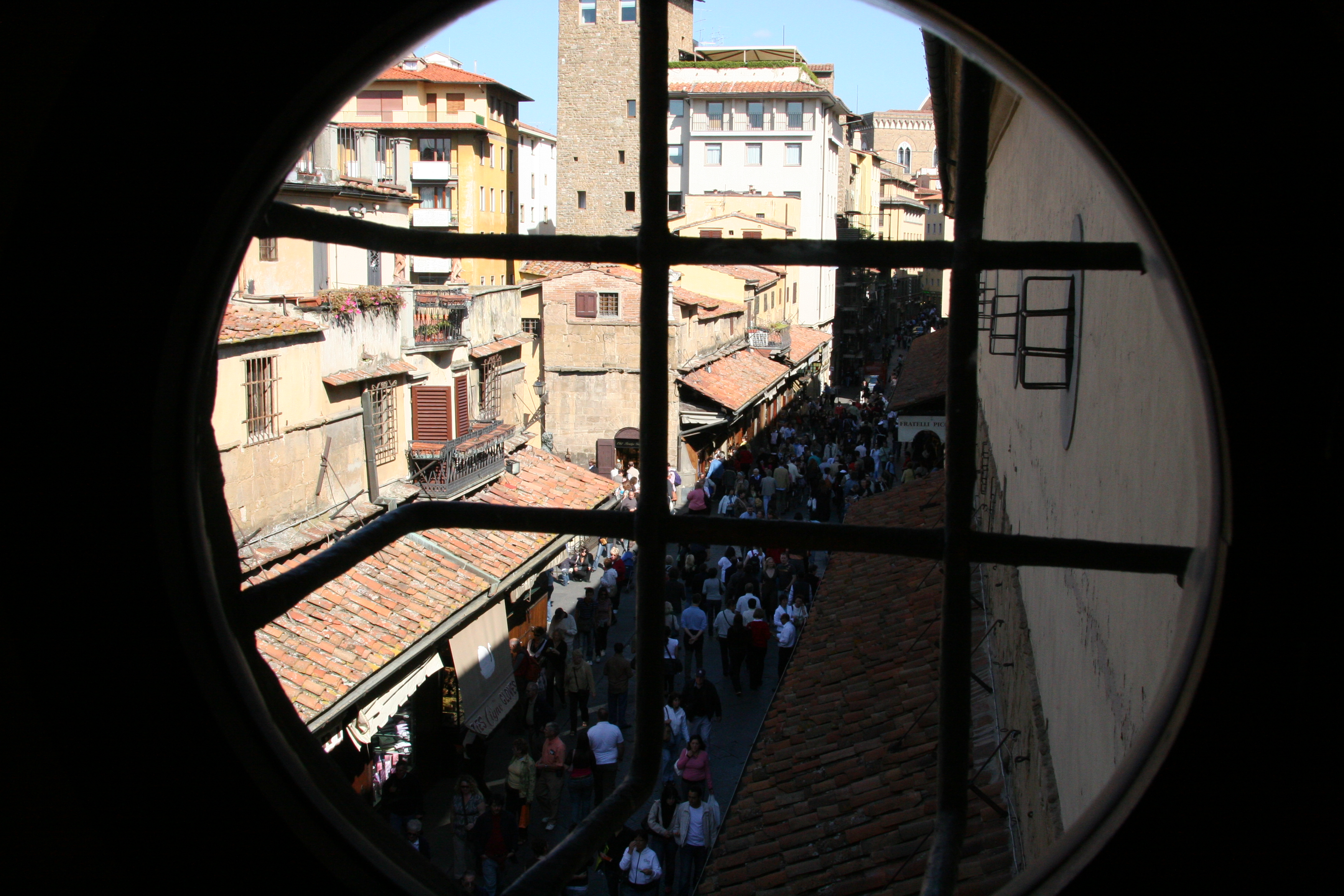 Looking from Vasari Corridor Onto Ponte Vecchio